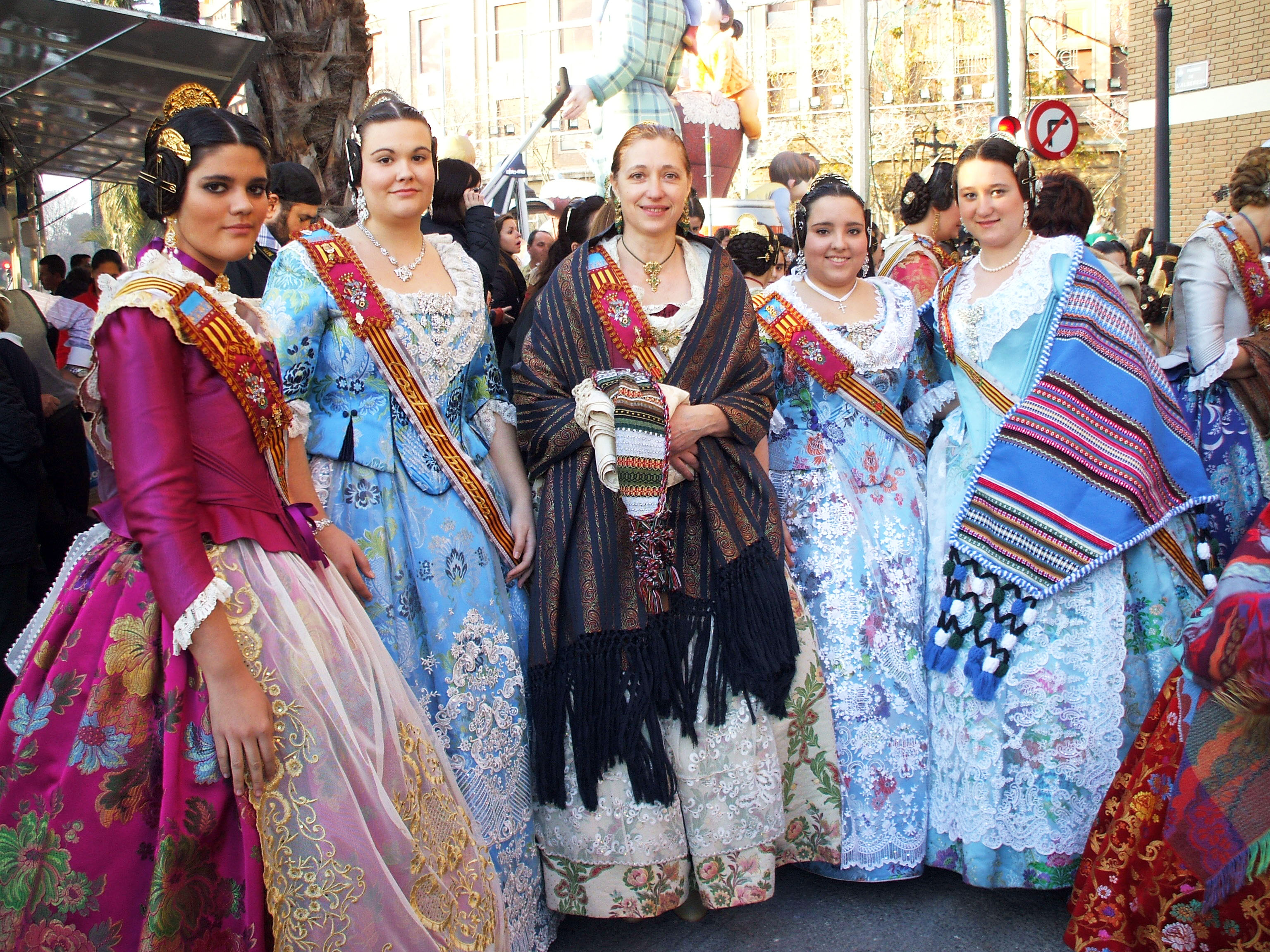 A couple of falleras